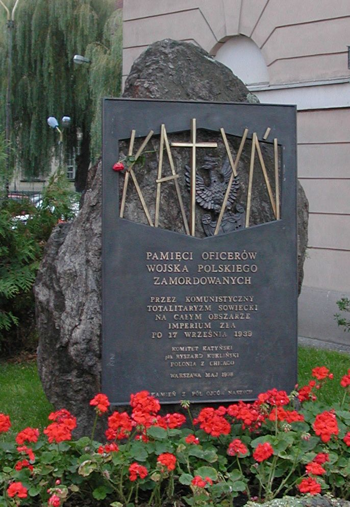 Poland, Senatorska Street in Warsaw